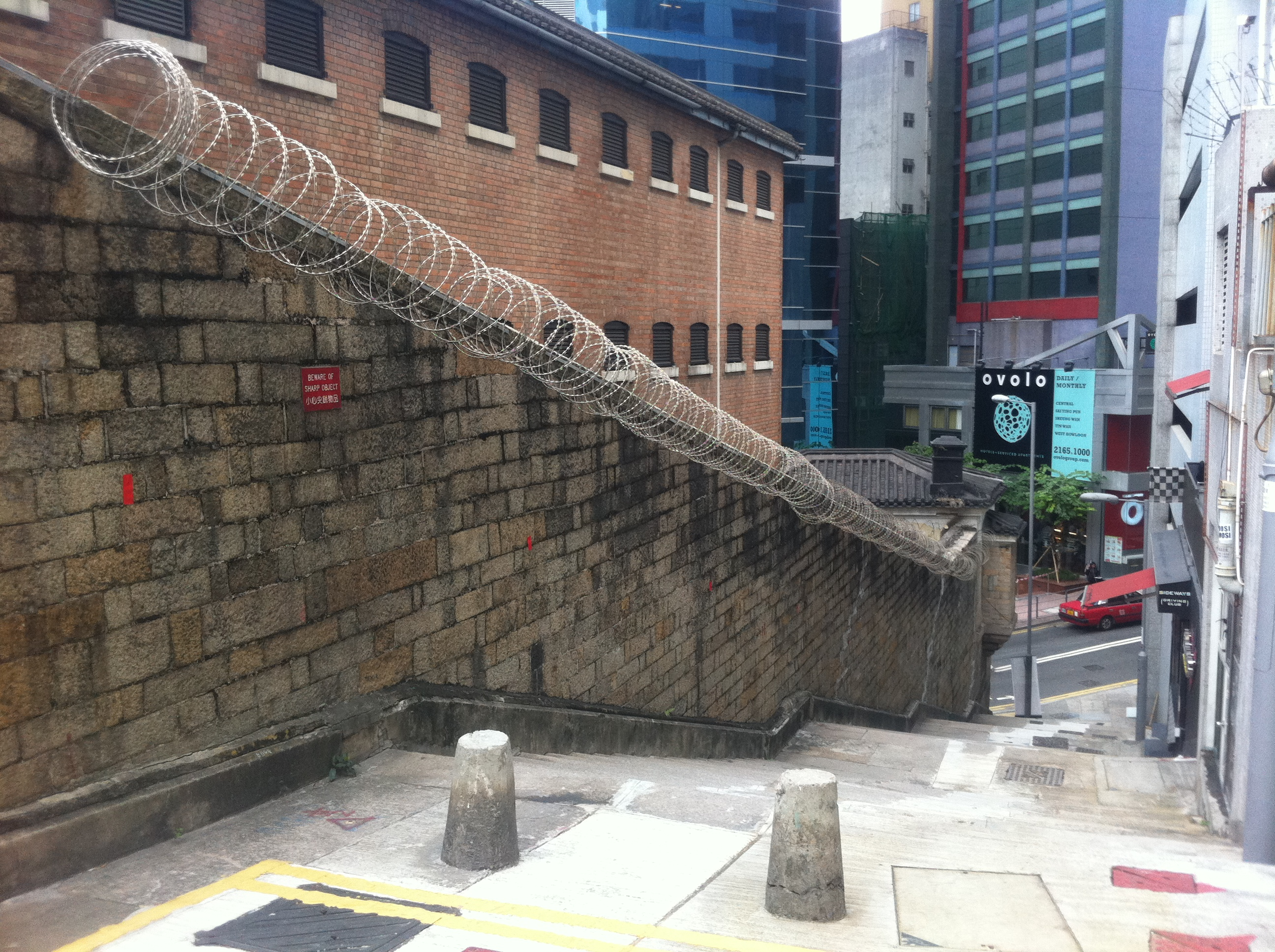 香港島 中環 贊善里, Chancery Lane, Central, Hong Kong